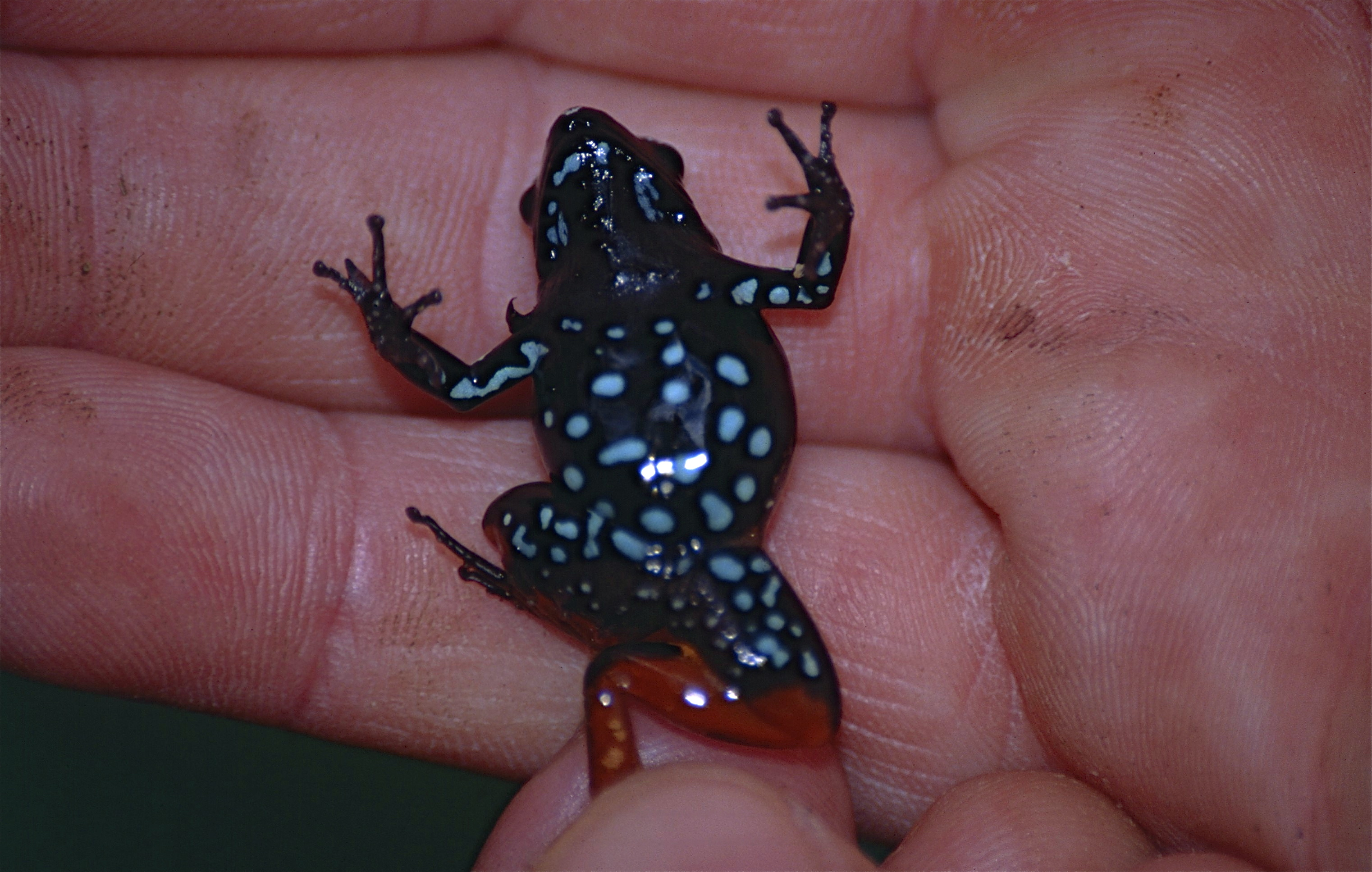 Anosy Mountains, North of Tolagnaro, MADAGASCAR Scanned Slide from 1998